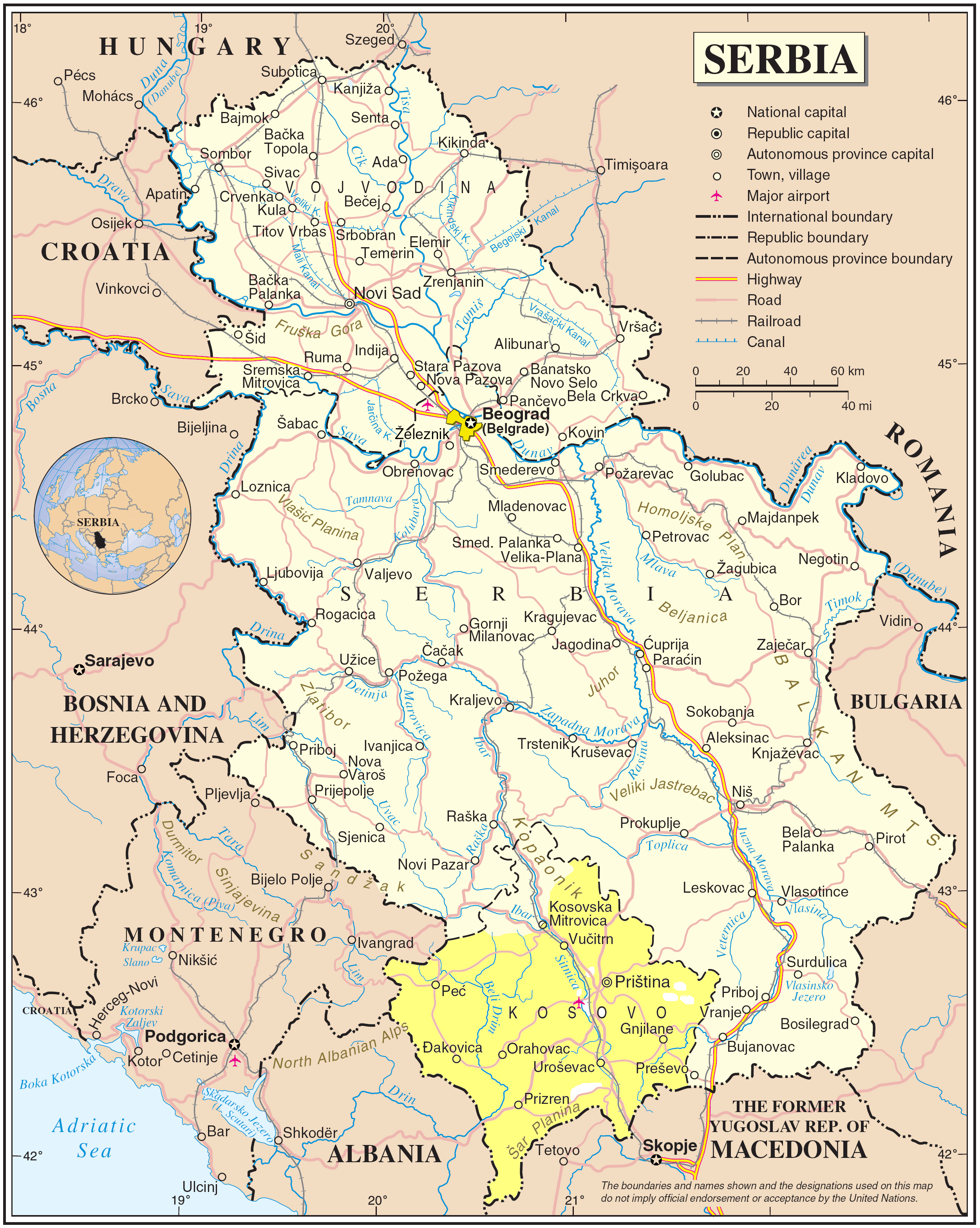 Map of Serbia with Kosovo included, changed, de facto regime inner Serbia